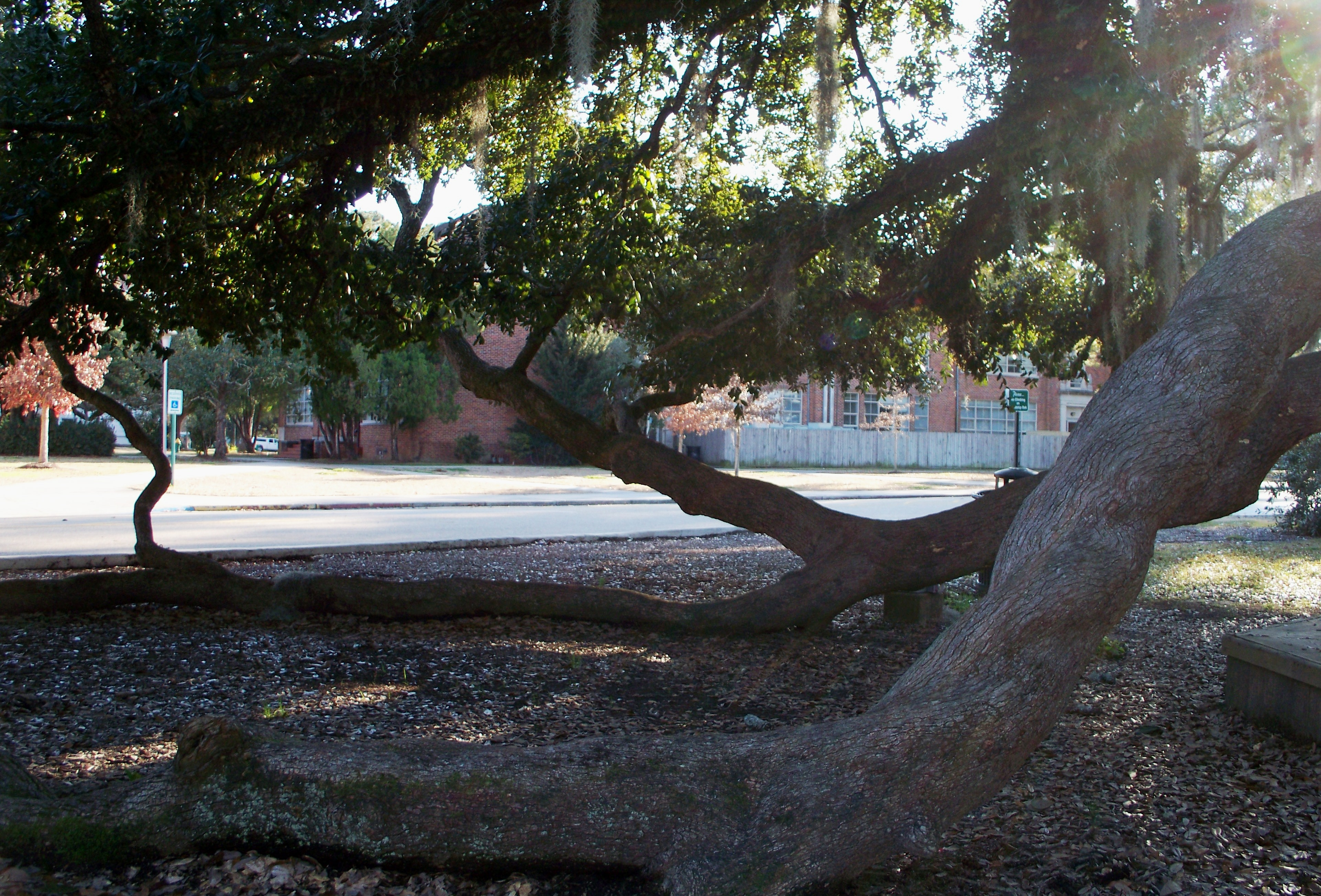 Friendship Circle on the campus of Southeastern Louisiana University is dominated by Friendship Oak. This tree is hundreds of years old. Like other mature spreading oaks, Friendship Oak at Southeastern is maintained by arborists to prevent the limbs from growing into the ground. Note the Spanish moss. "I Saw in Louisiana a Live Oak Growing" (poem) by Walt Whitman describes such a tree.